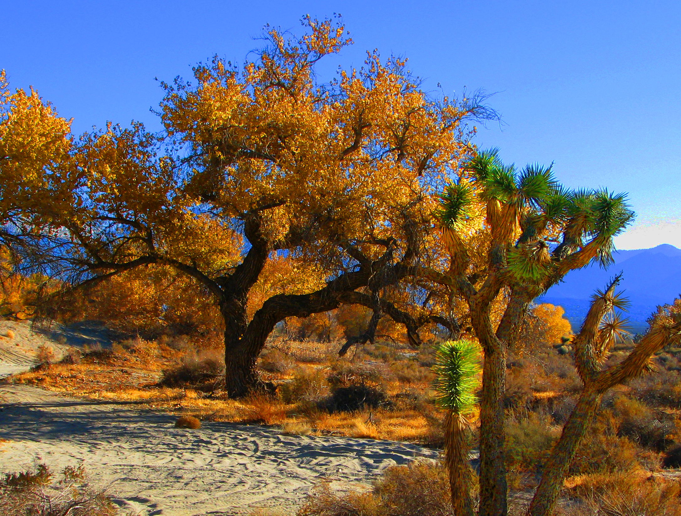 Joshua Tree in Fall